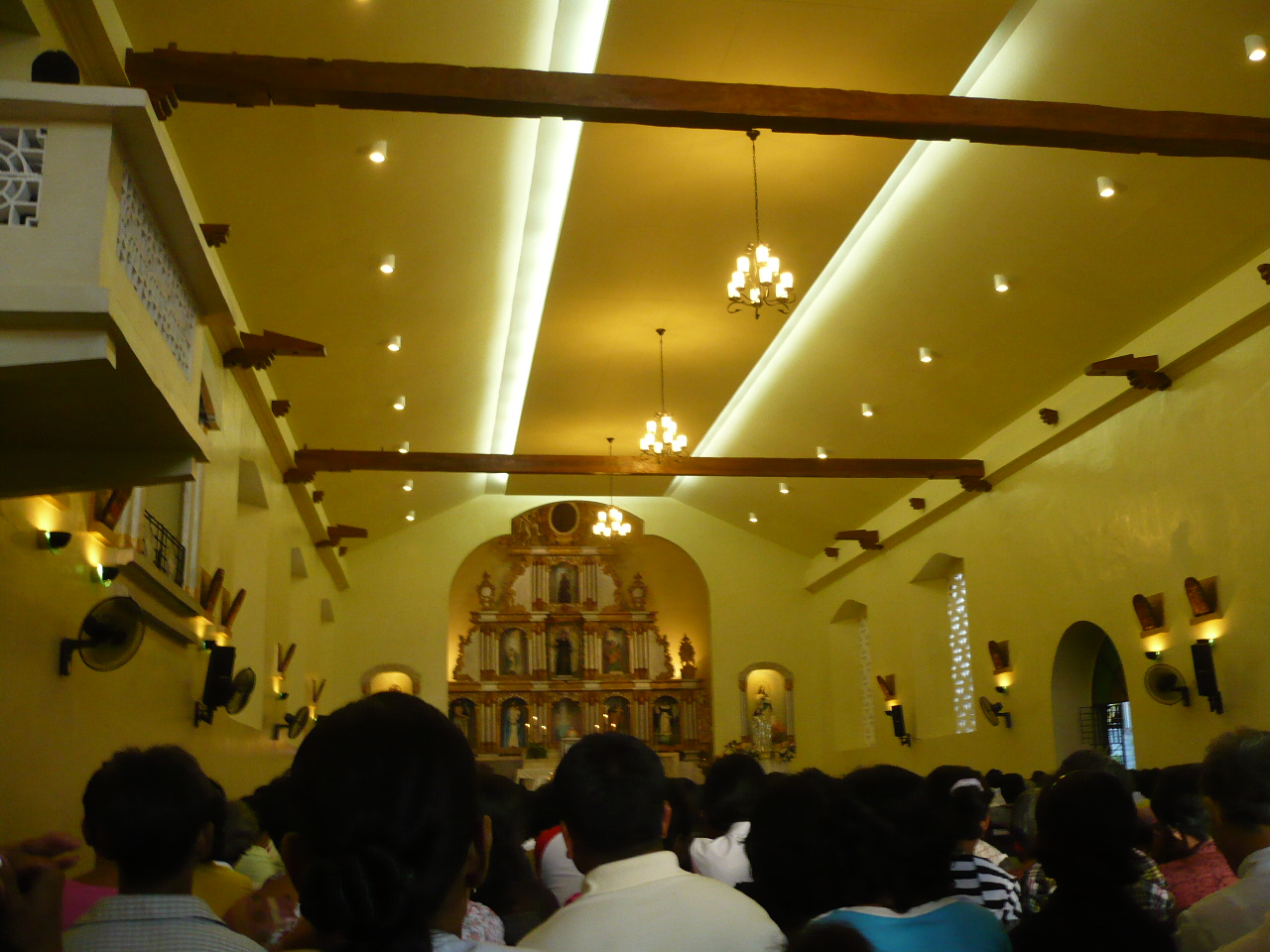 Banton Church Interior